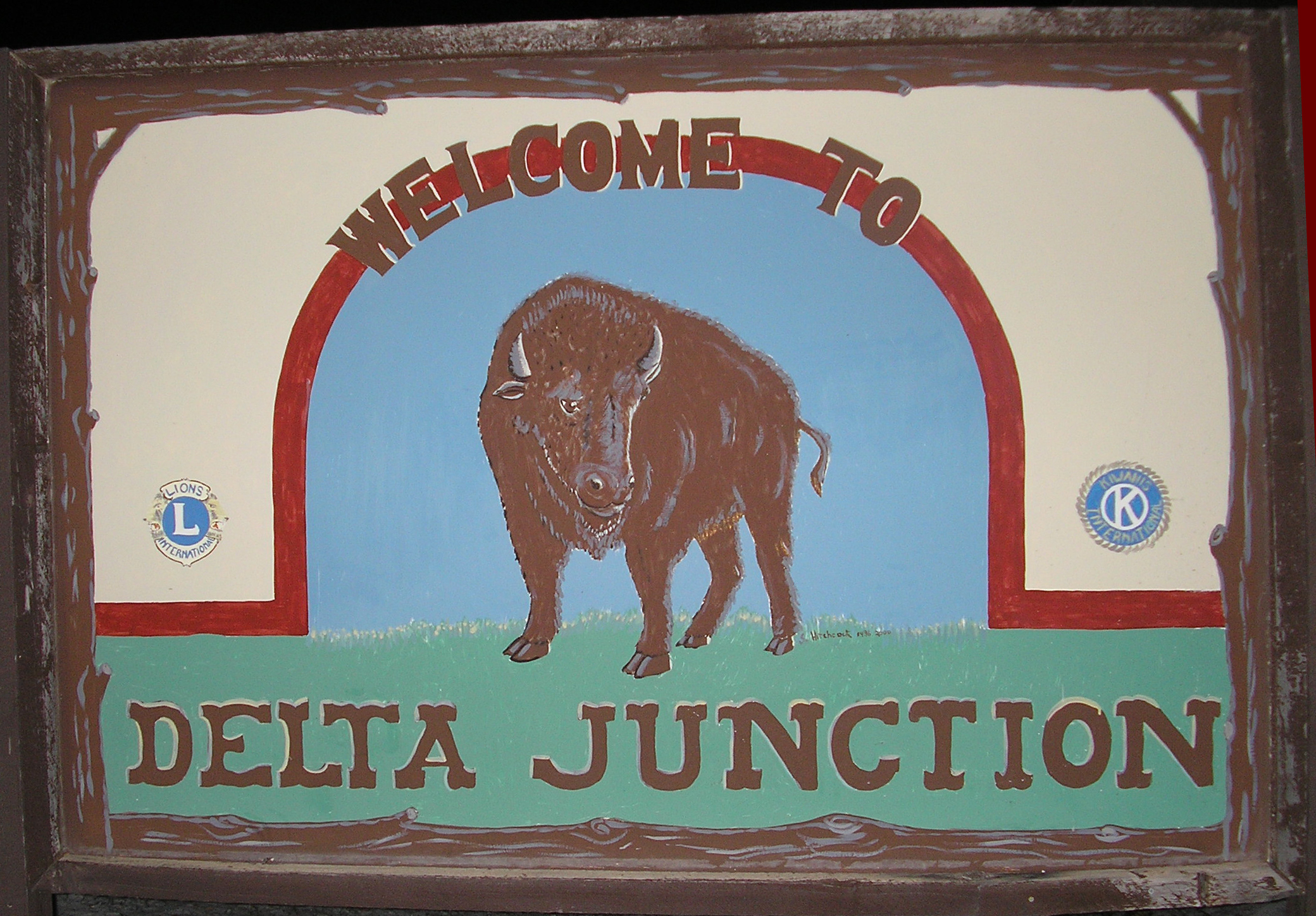 The welcome sign at the Delta Junction visitors' center in Delta Junction, Alaska.